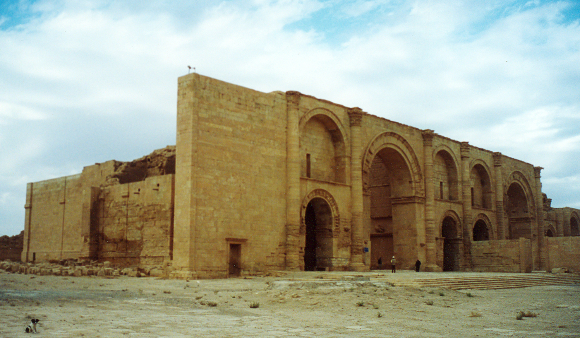 Hatra (Iraq)